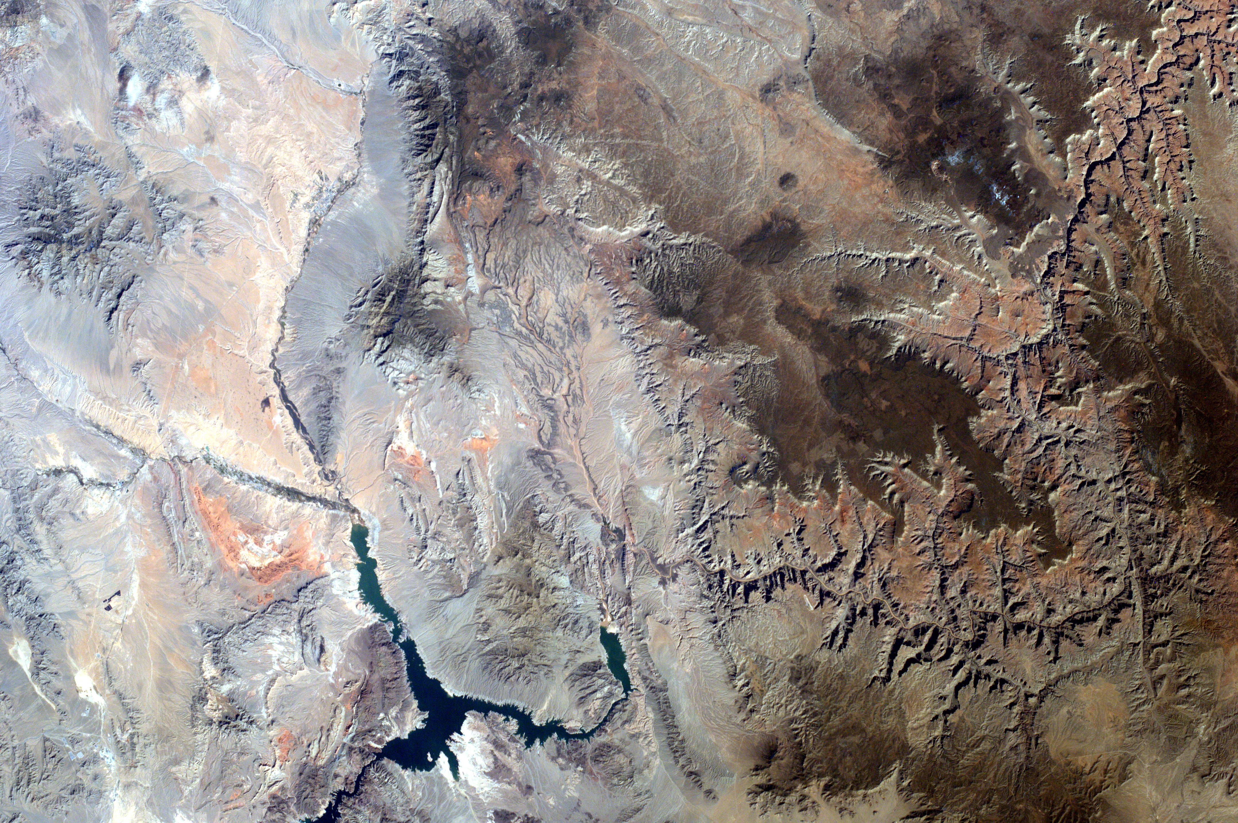 A student on Earth programmed a space station camera, the Sally Ride EarthKAM, to capture this image of the Grand Canyon area of Arizona…